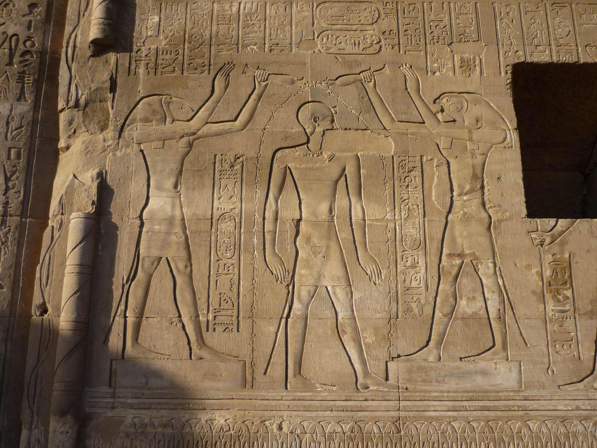 Wall relief of Thot and Horus with Ptolemy XII, Kom Ombo Temple, Egypt [1] [2]